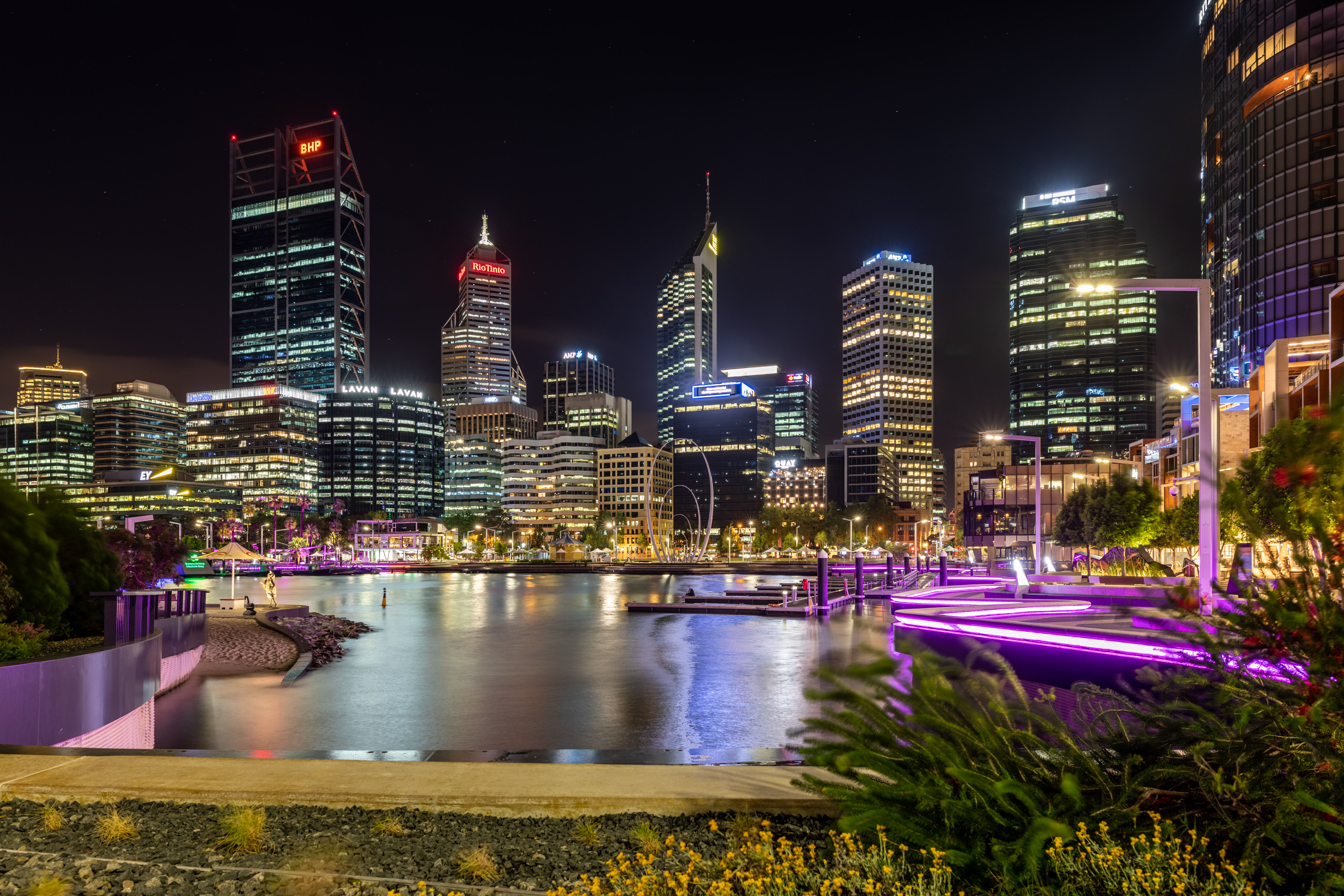 Elizabeth Quay, Perth, Western Australia, Australia